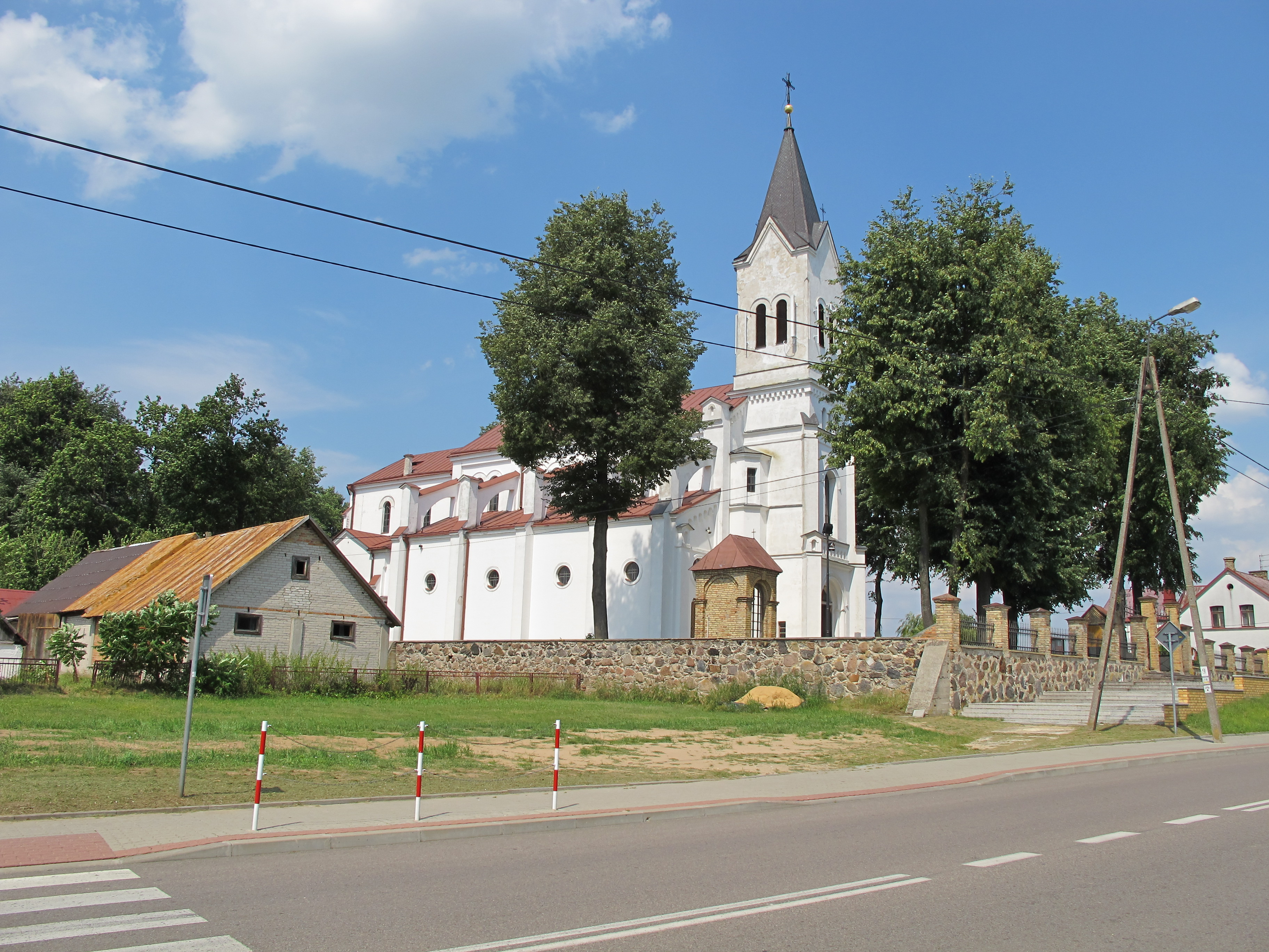 Collegiate Church of the Nativity of the Blessed Virgin Mary in Krypno, gmina Krypno, podlaskie, Poland